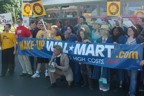 Reverend Billy and the Church of Stop Shopping